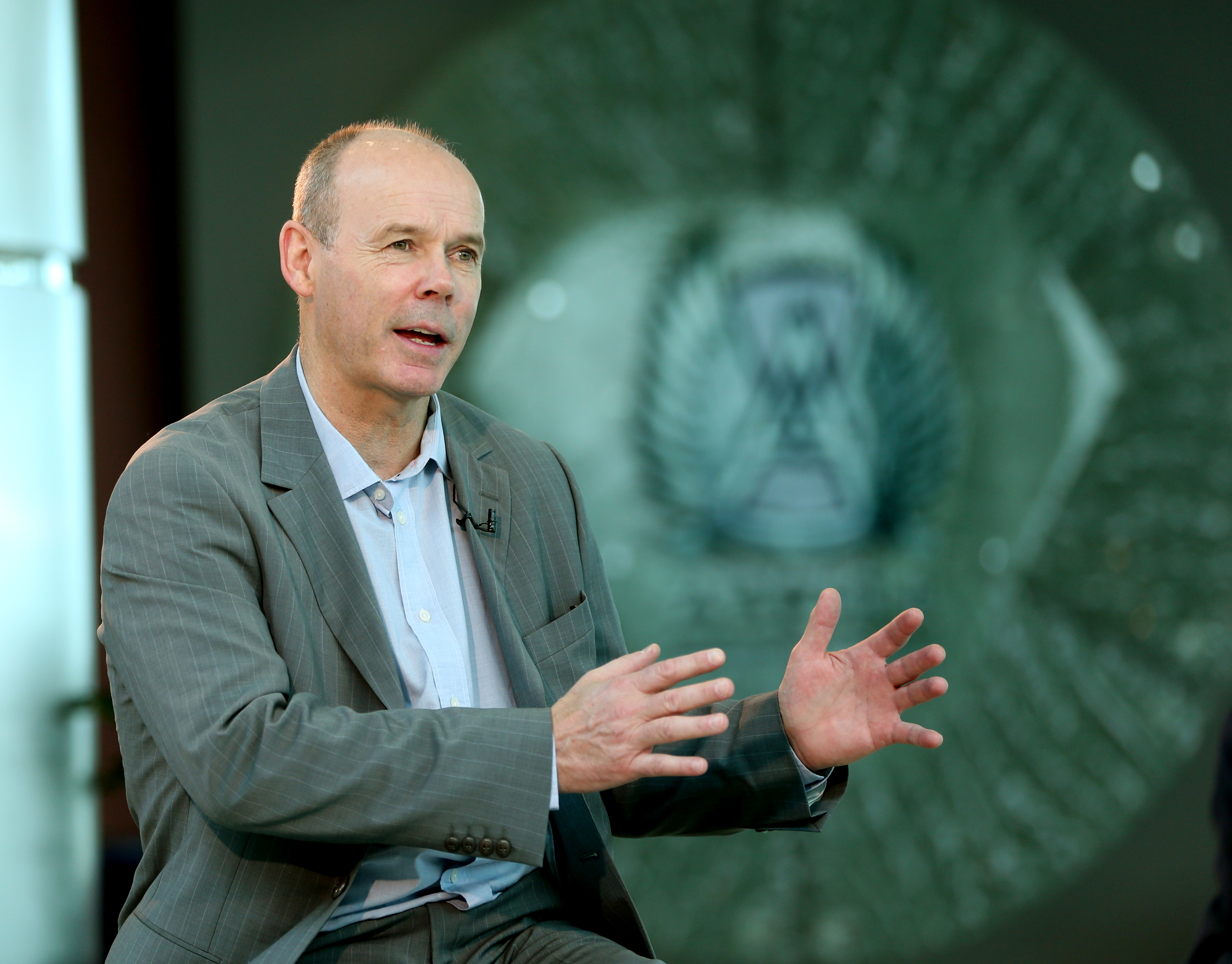 Former England rugby coach Clive Woodward during a visit to the ASPIRE Academy. Picture by Mohan